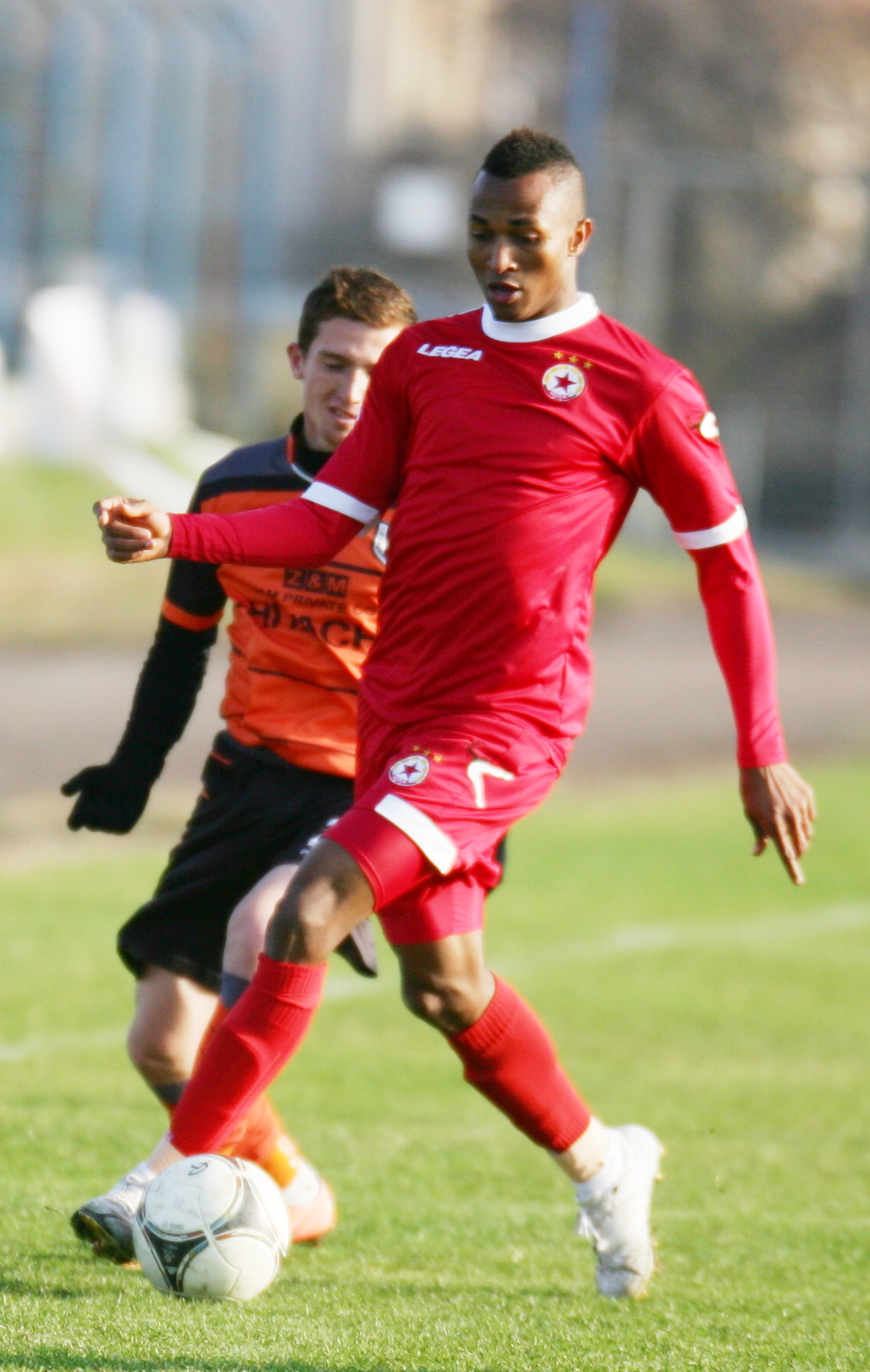 Toni Brito Silva Sá (born 15 September 1993) is a Bissau-Guinean-born Portuguese professional footballer who currently plays as a winger for CSKA Sofia in the Bulgarian A Professional Football Group .